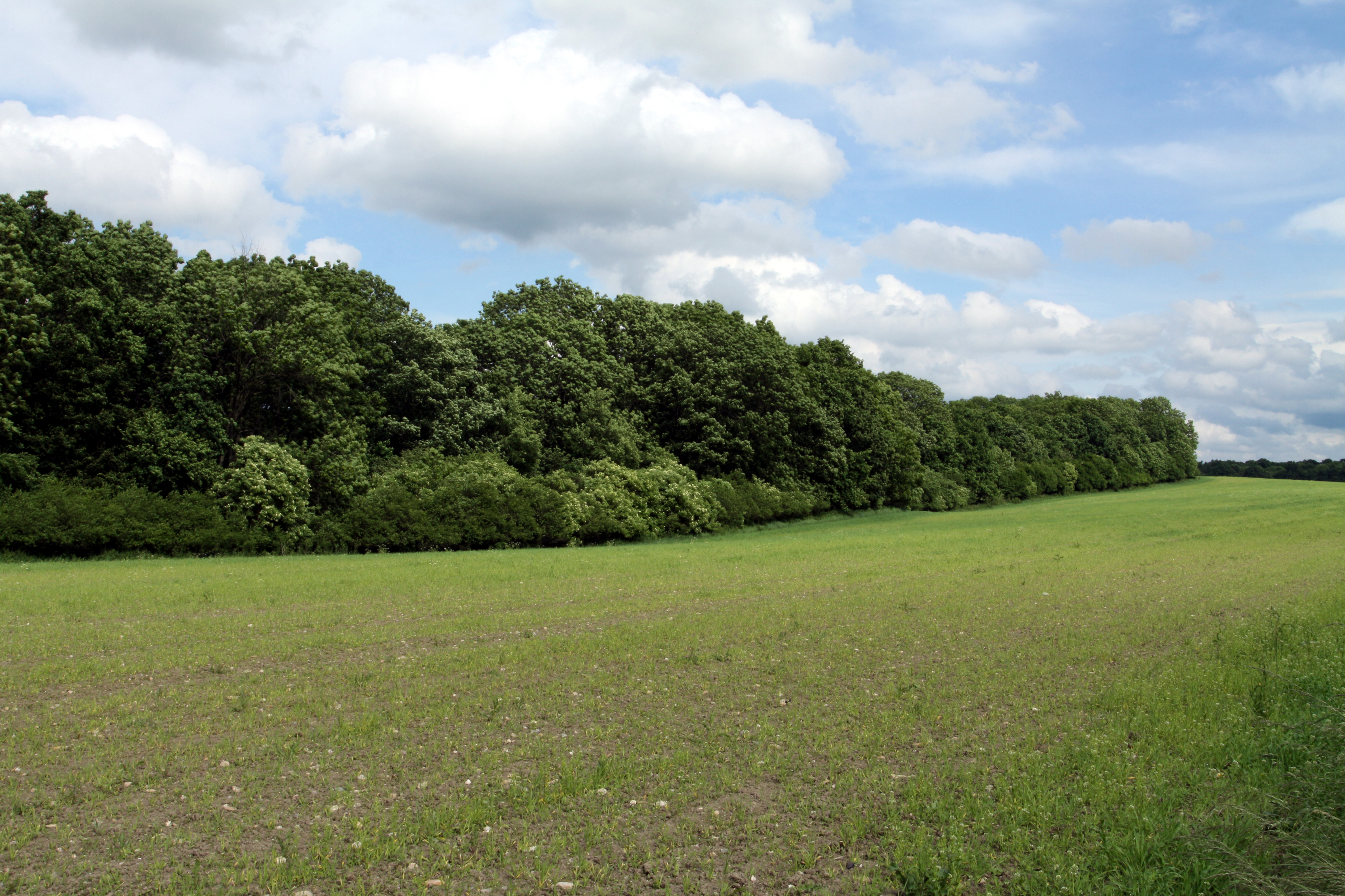 Nature reserve Šestajovická stráň near Šestajovice village, Náchod District, Czech Republic